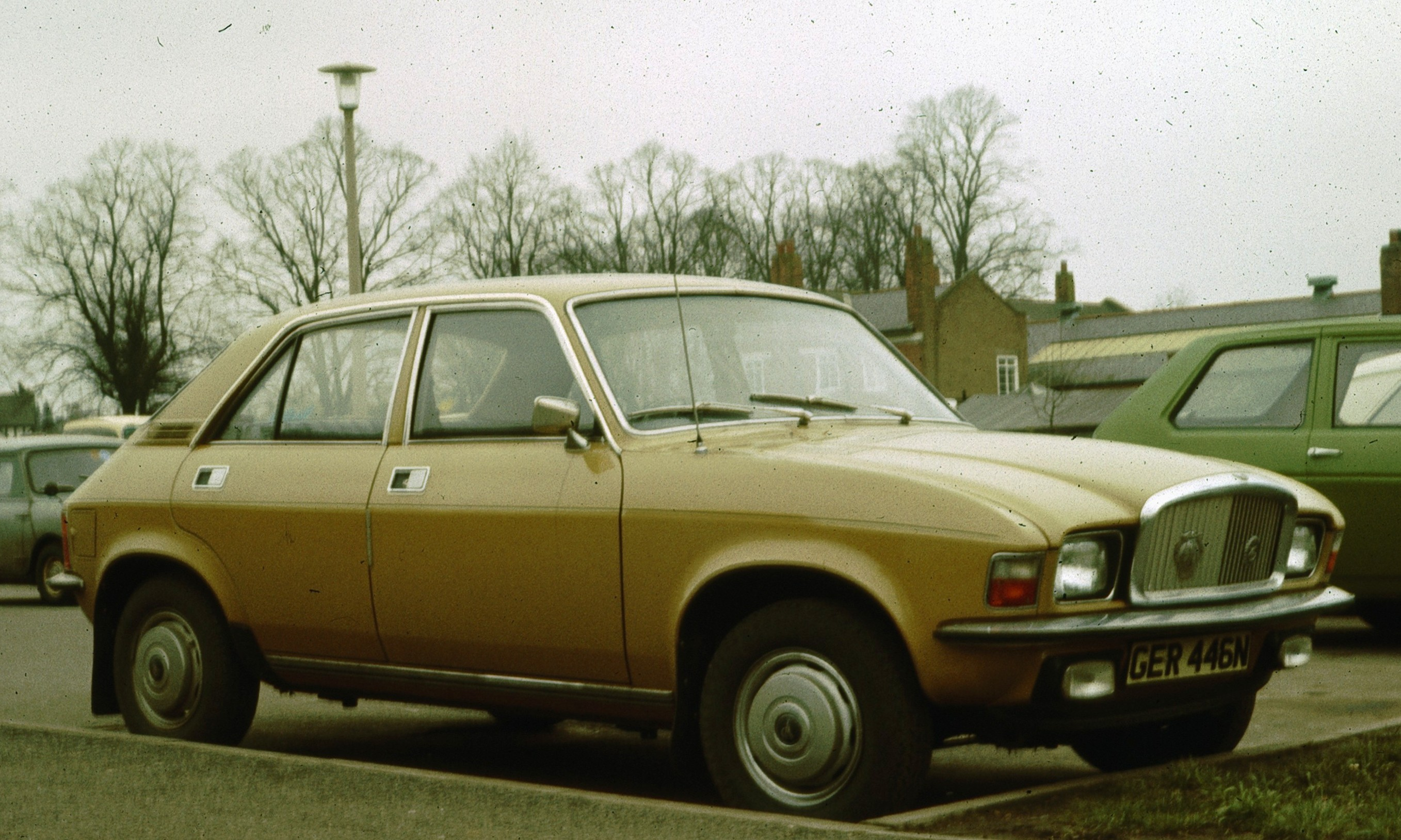 Vanden Plas 1500 photographed in a car park located approx 500 m to the south of the cathedral in Ely